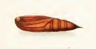 Iconographie et description de chenilles et lépidopteres inédits: Crocallis tusciaria